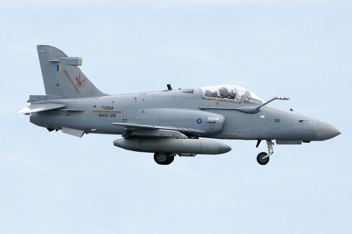 BAE Hawk 208 edited using Gimp